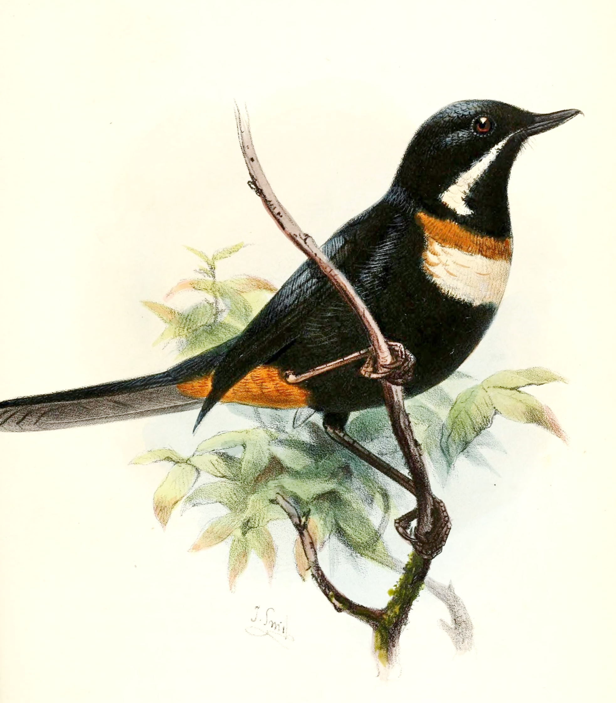 « Diglossa pectoralis » = Diglossa mystacalis pectoralis (Subspecies of Moustached Flowerpiercer)